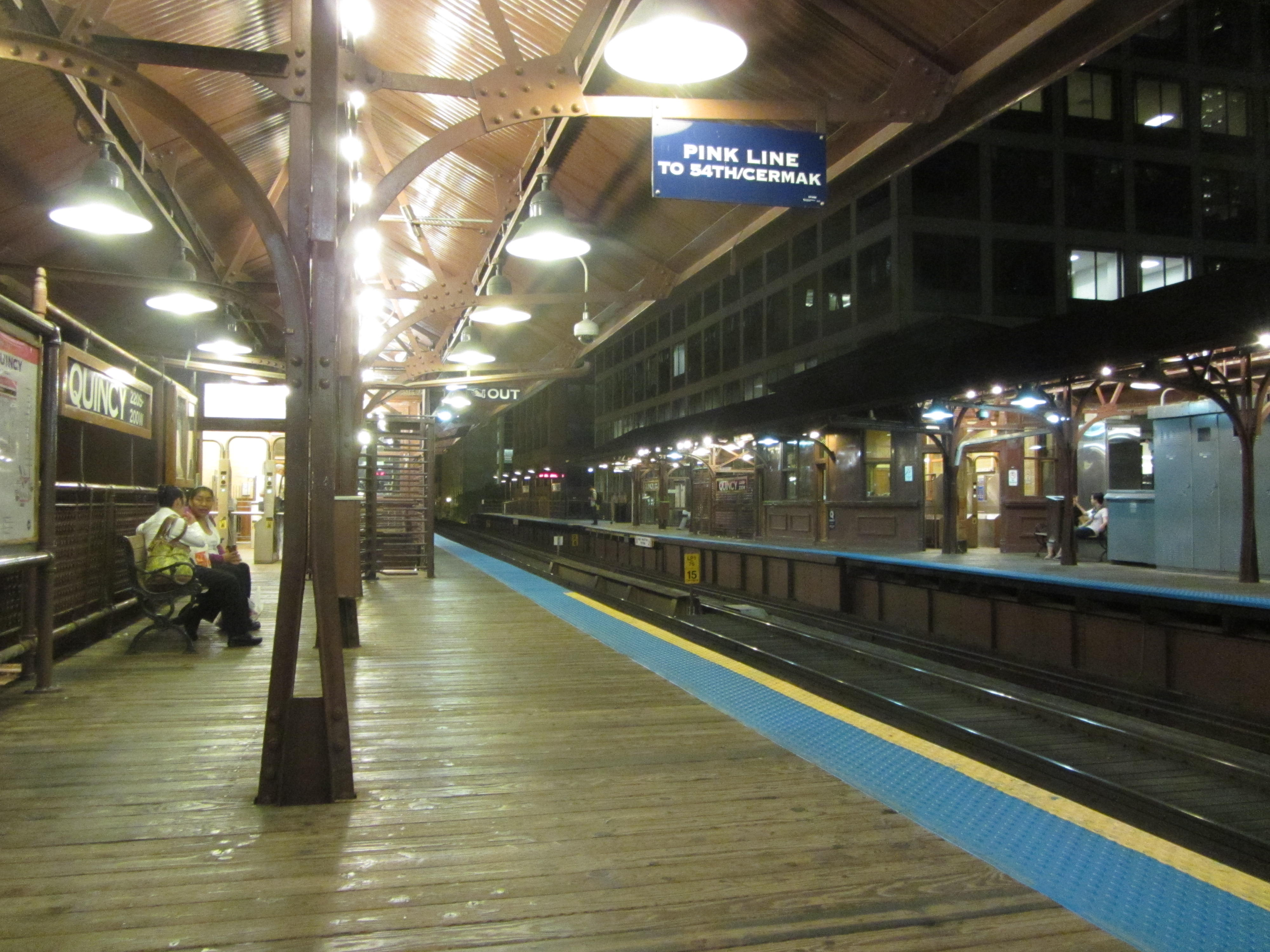 20110830 17 CTA Loop L @ Quincy & Wells